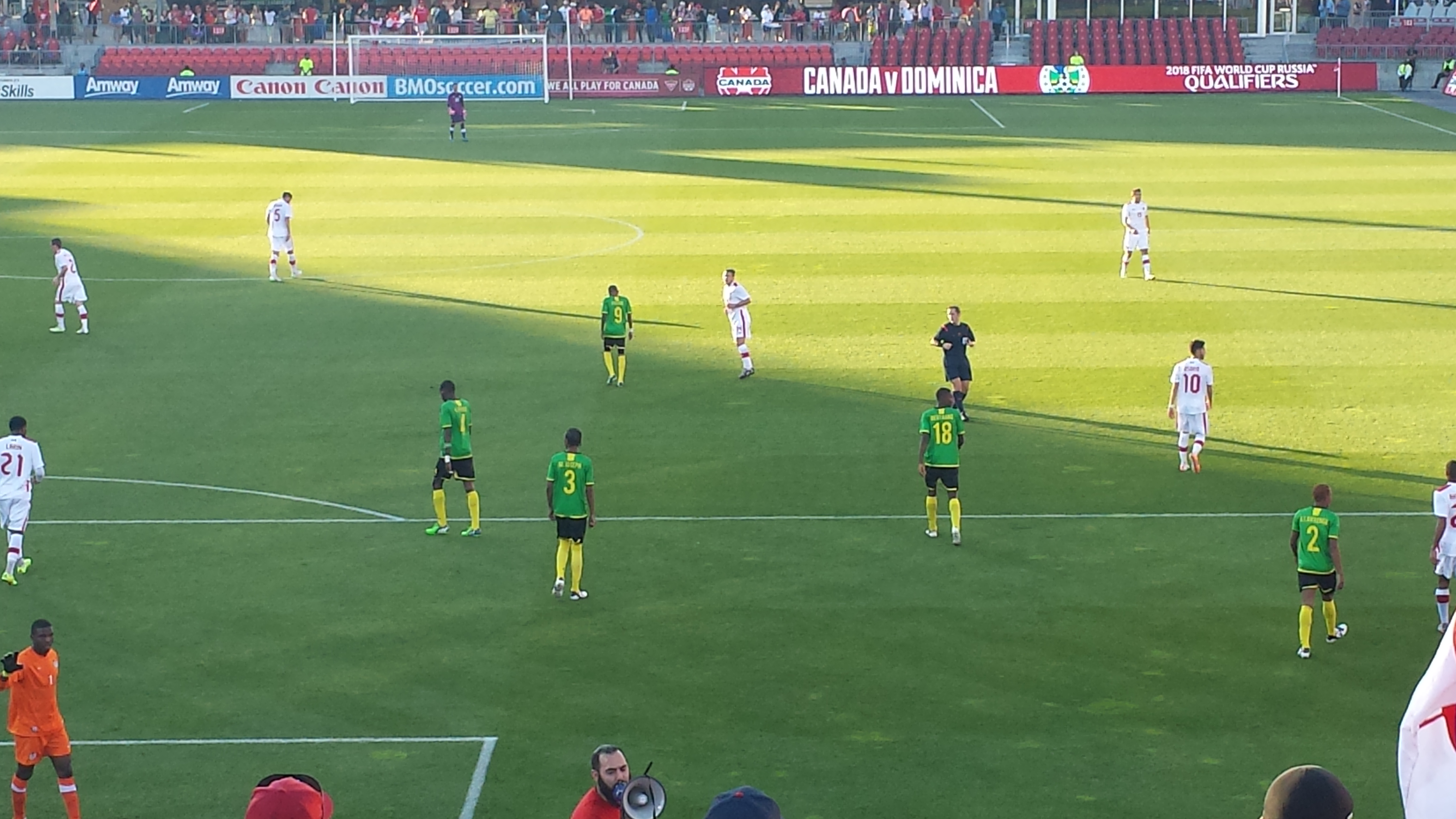 Canada vs. Dominica 2018 FIFA World Cup qualifier at BMO Field, Toronto, Ontario, Canada